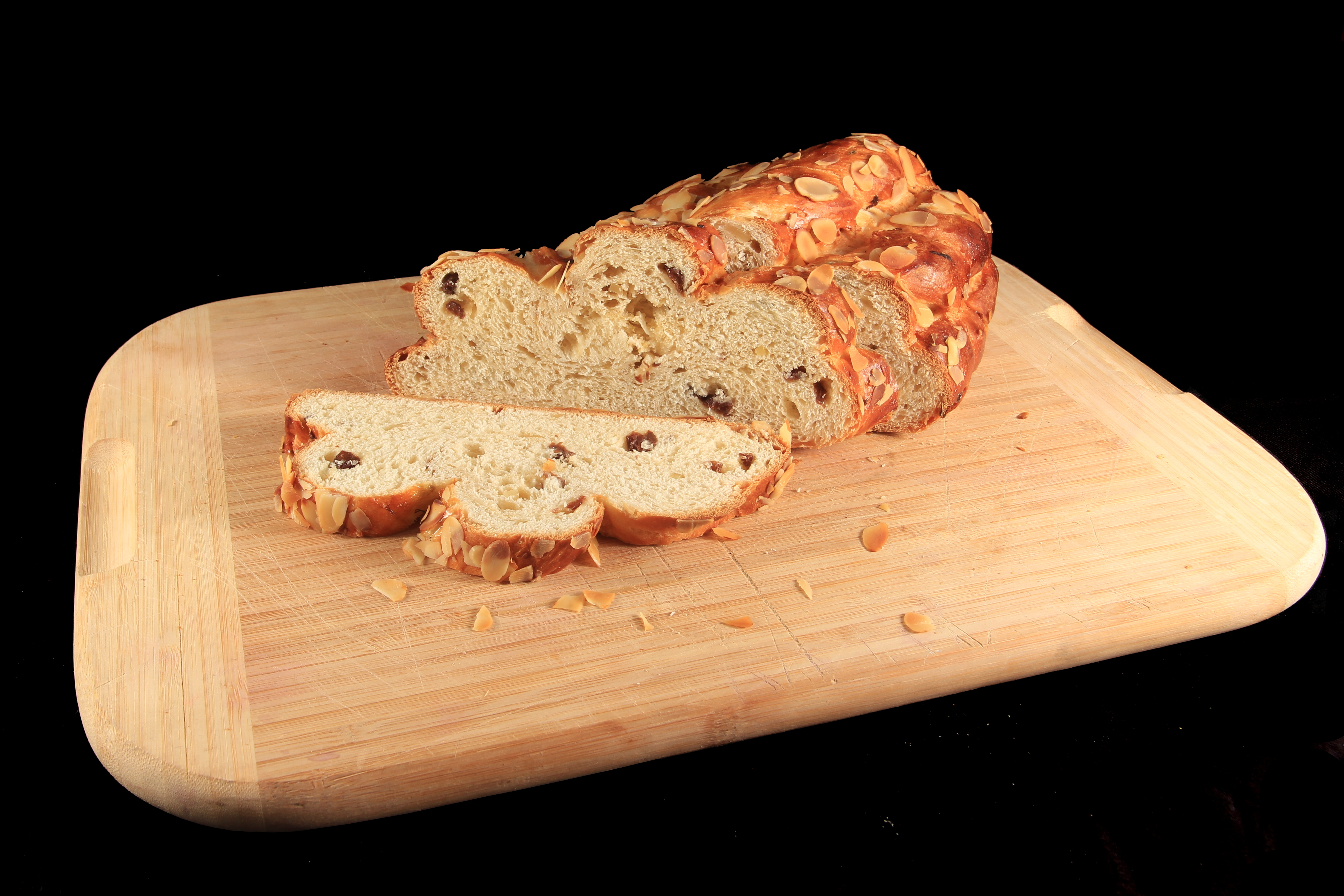 Vánočka is a plaited bread, baked in Czech Republic and Slovakia (in Slovak called vianočka) traditionally at Christmas time.